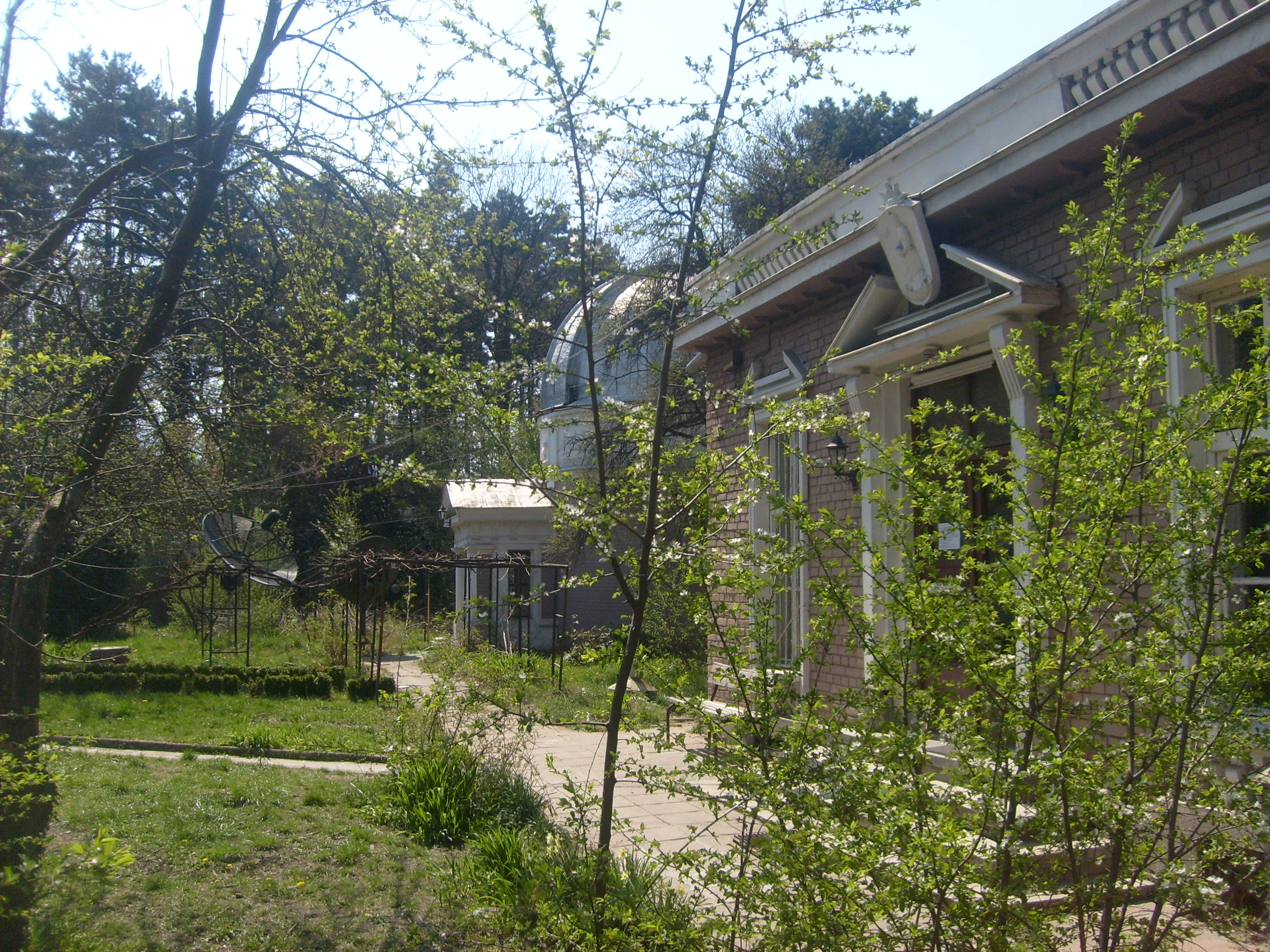 The old observatory in Borisova gradina, Sofia, Bulgaria